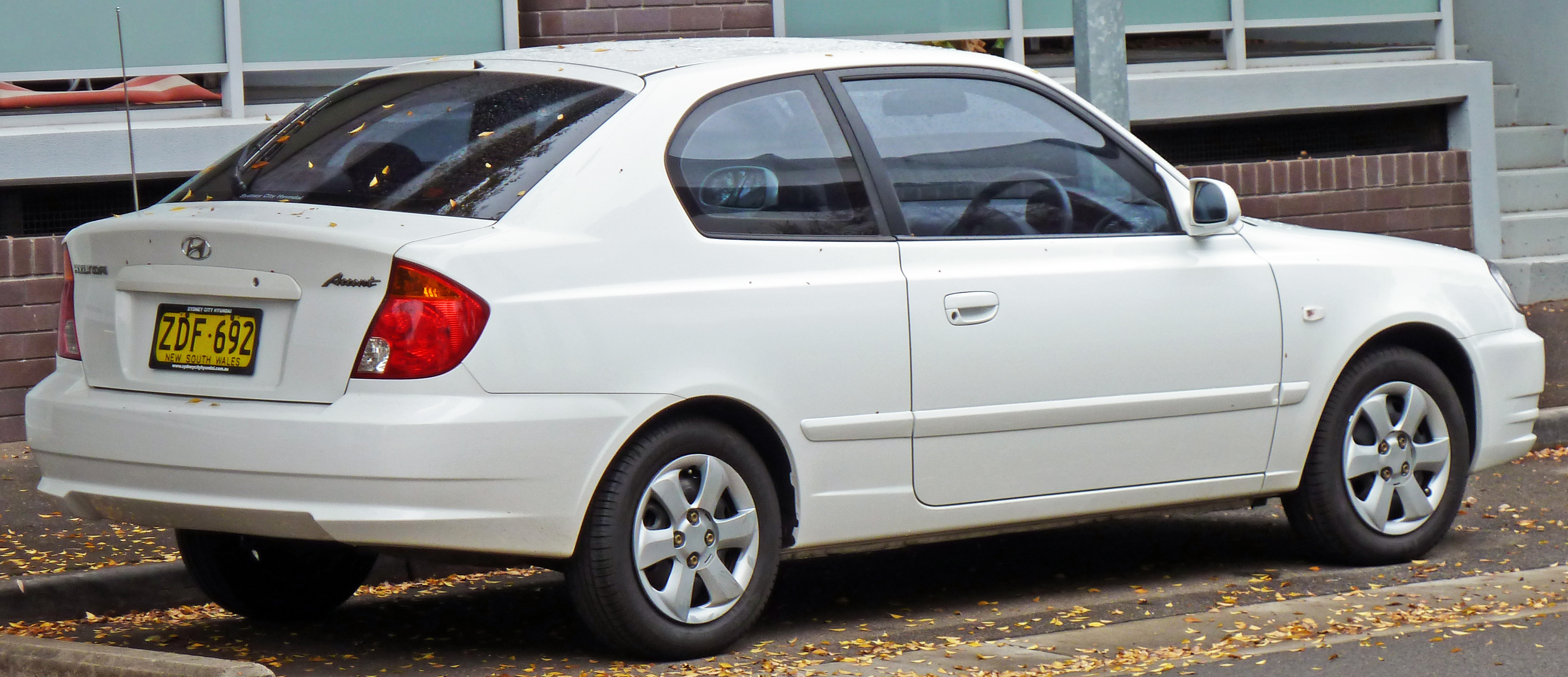 2003 Hyundai Accent (LC MY04) GL 3-door hatchback. Photographed in Zetland, New South Wales, Australia.